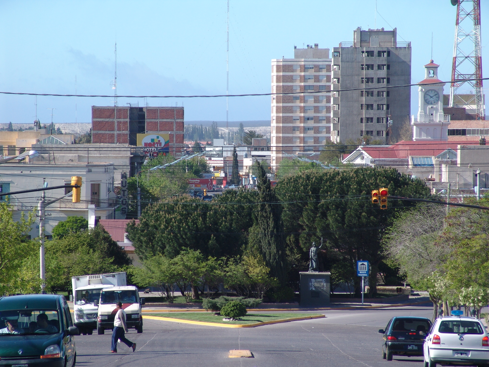 Trelew - Chubut